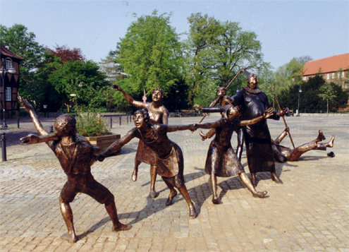 Arne Ranslet (Danish, born in 1931): Guldgåsen (Golden goose), 1992, bronze, Schlossplatz, Winsen (Luhe), Germany.